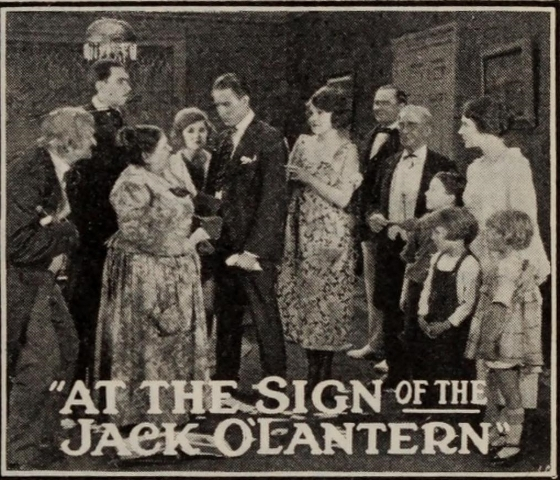 Photo of actors from the American film At the Sign of the Jack O'Lantern (1922) on page 13 of the April 1922 issue of Motion Picture News Booking Guide. Picture cropped from page 13. Other information Photo of actors from the American film At the Sign of the Jack O'Lantern (1922) on page 13 of the April 1922 issue of Motion Picture News Booking Guide. Picture cropped from page 13.